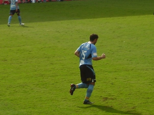 Terry McFlynn playing for Sydney FC in the A-League 2009-10 season clash against Gold Coast United.